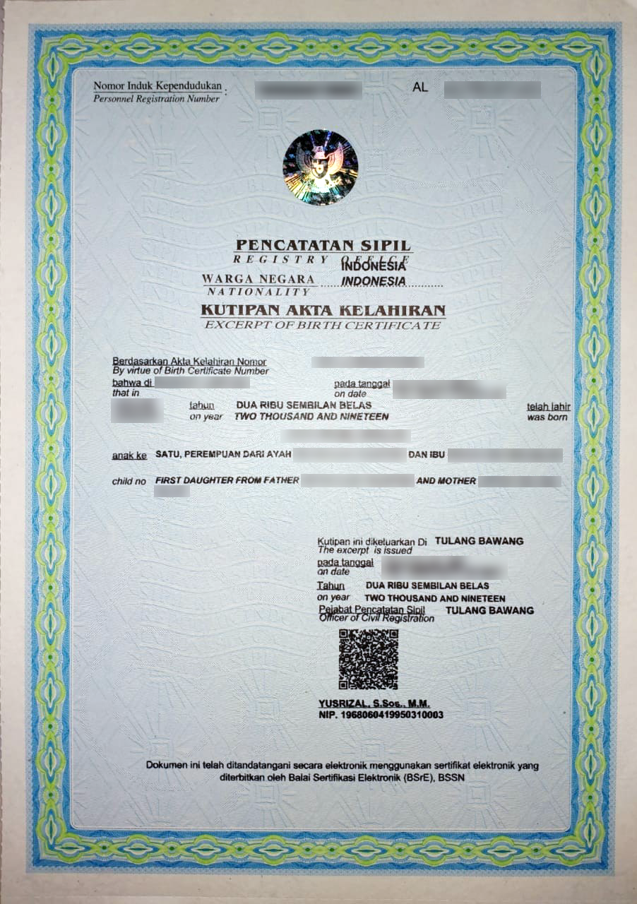 This is an Indonesian birth certificate, issued by the prefectural civil registry in Tulang Bawang, Lampung, Indonesia. The personal details have been obscured.